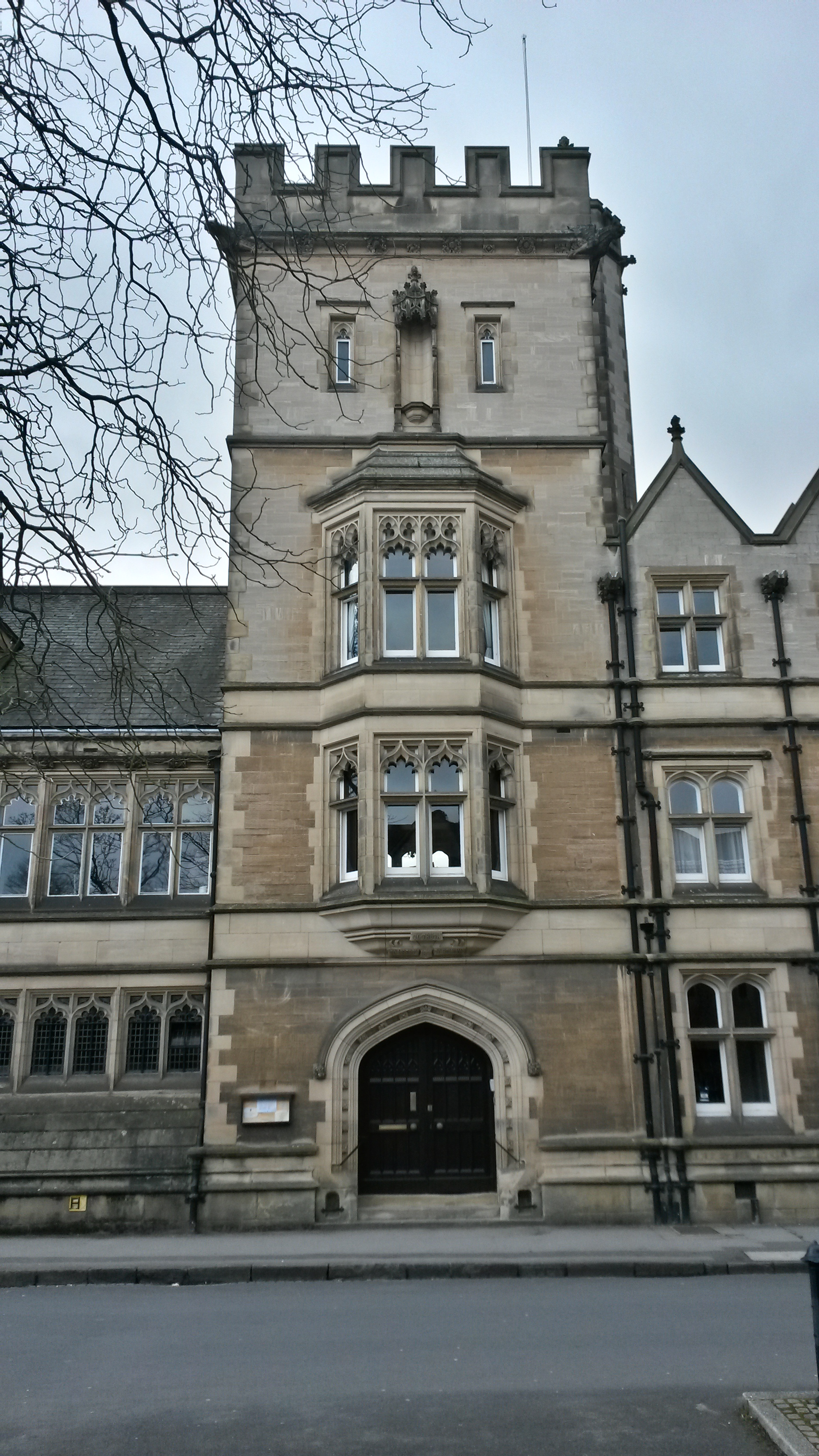 A detail of Harris Manchester College, Oxford seen from Mansfield Road.